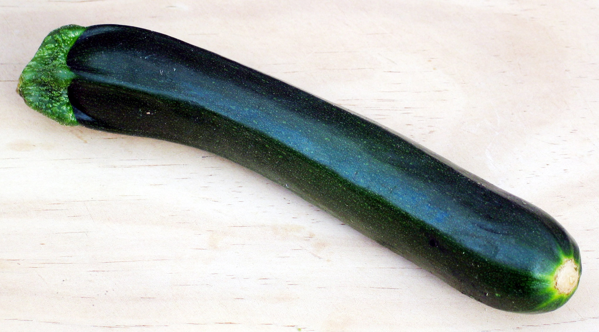 This is courgette (also known as a zucchini).